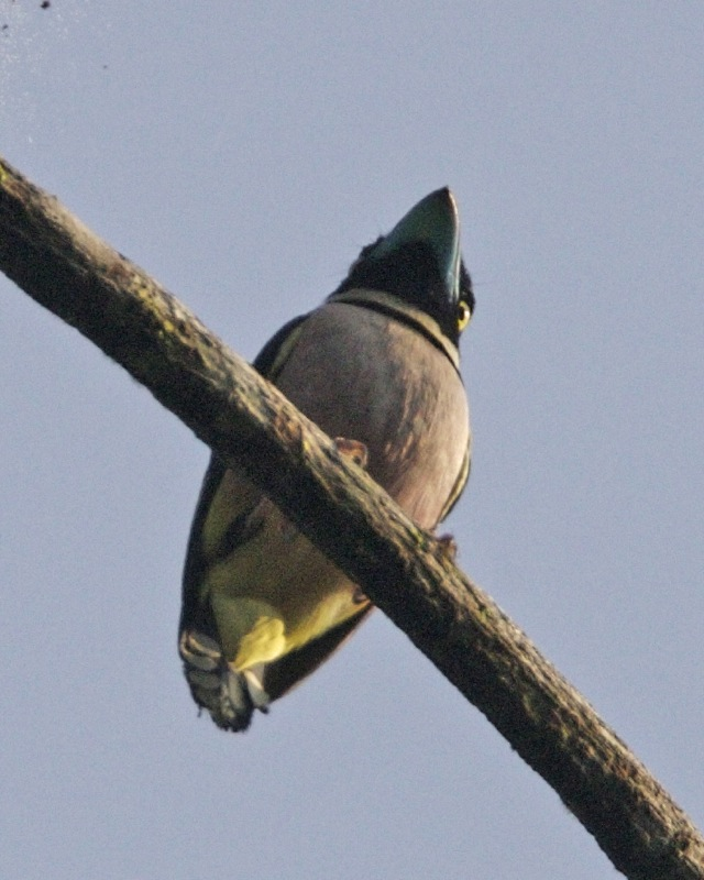 Black-and-yellow Broadbill Eurylaimus ochromalus 14th. June, 2009 Location: Panti Forest, Johor, Malysia 690V7838